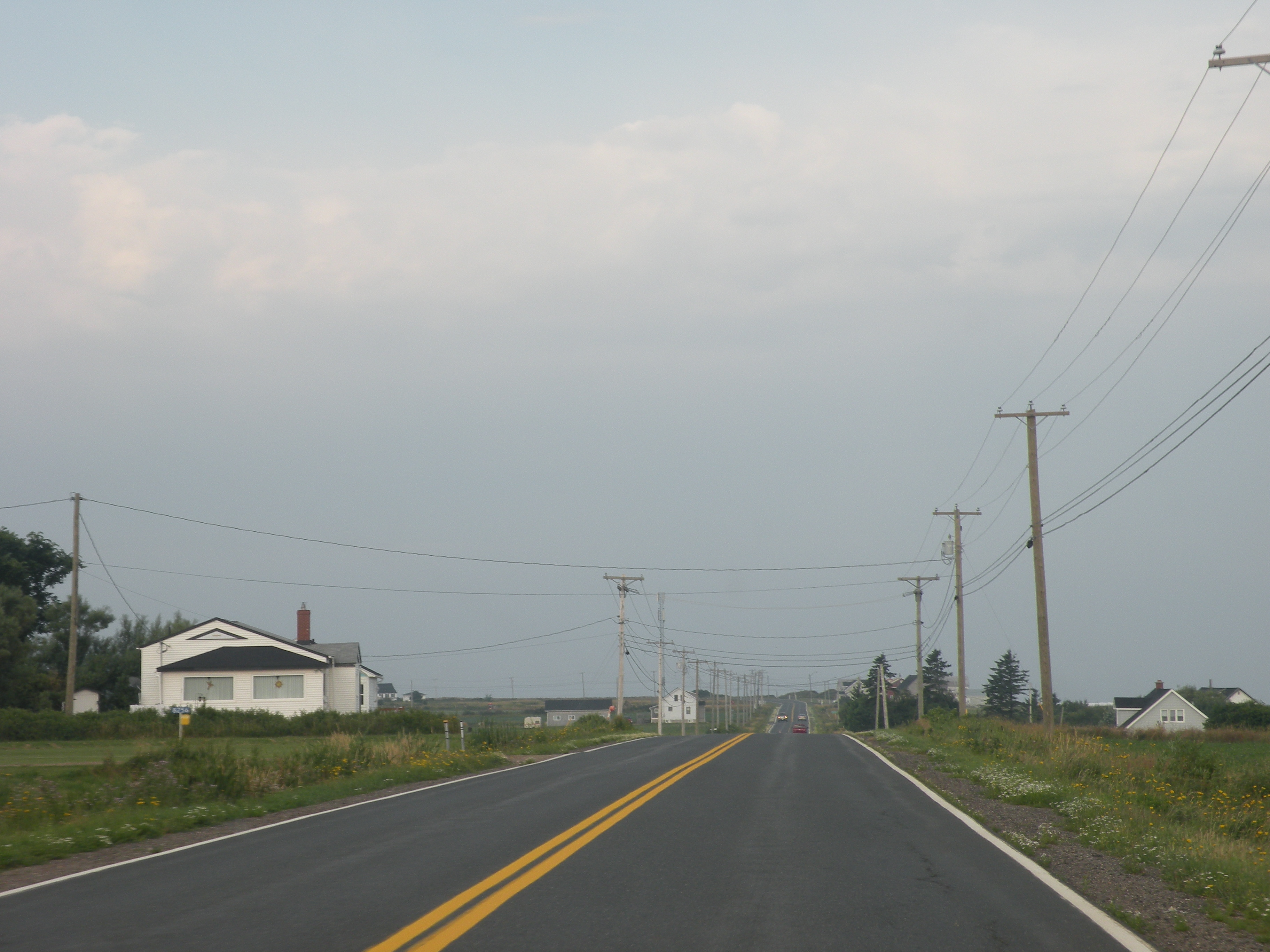 New Bandon, New Brunswick.